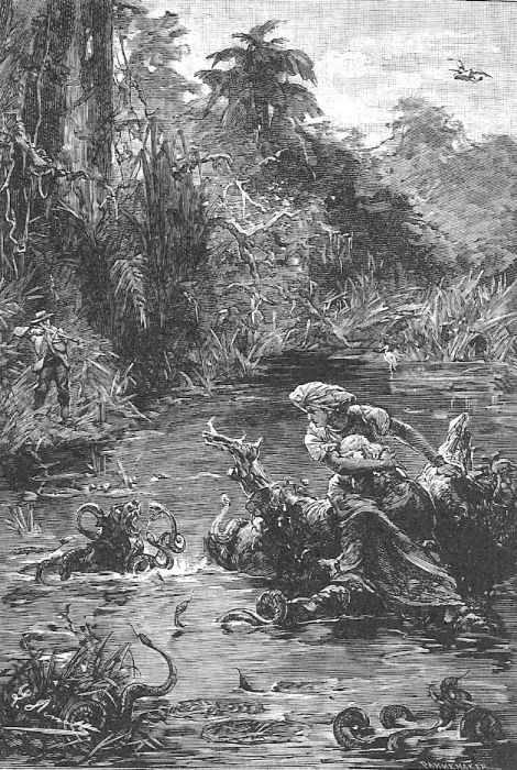 An ilustration from the novel "North Against South" (or "Texar's Revenge, or, North Against South") by Jules Verne painted by Léon Benett.